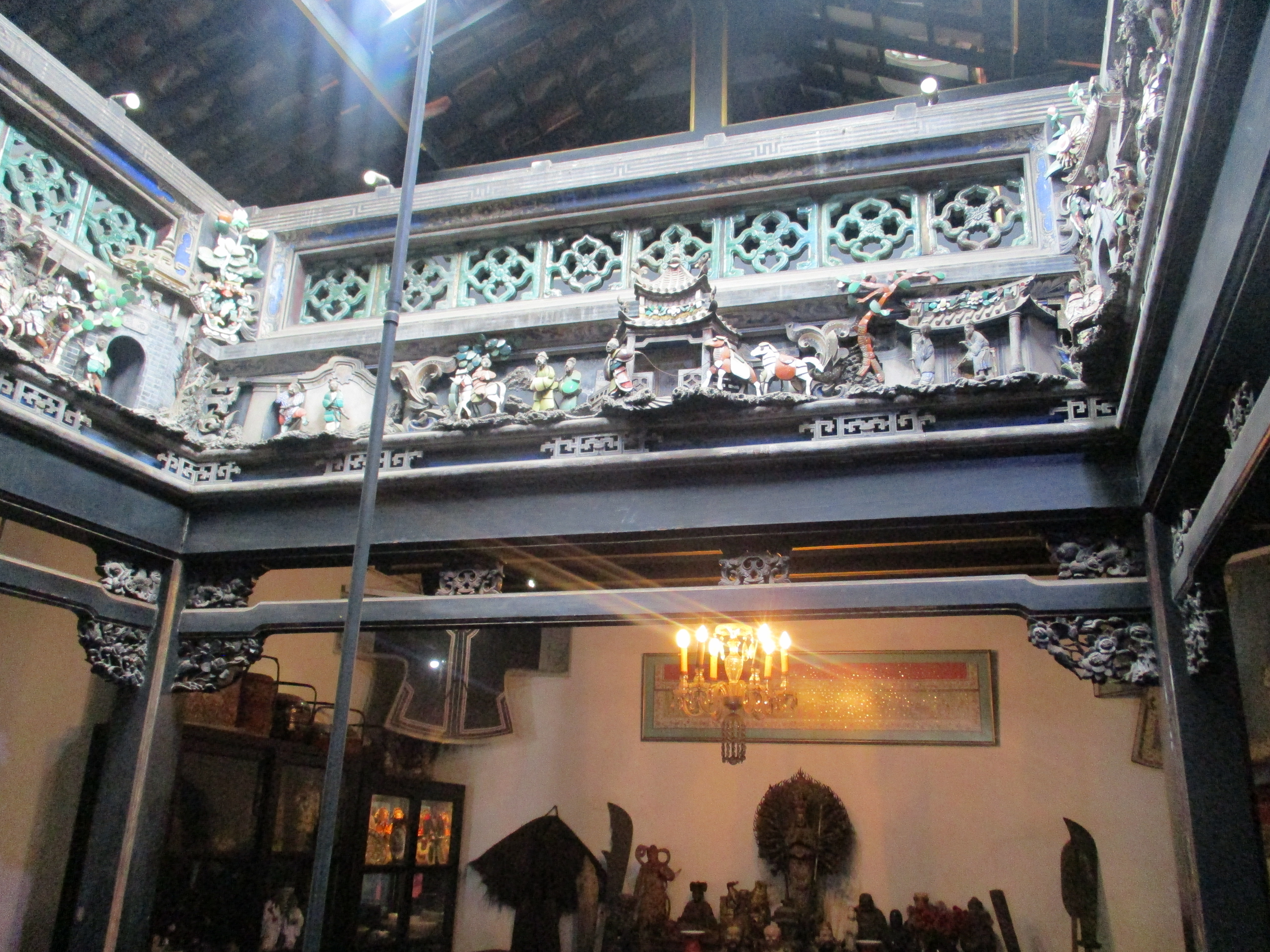 Benteng Heritage Museum interior, with priceless antique Chinese carvings